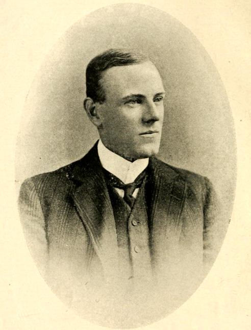 Robert W C Shelford, British Entomolgist and Naturalist